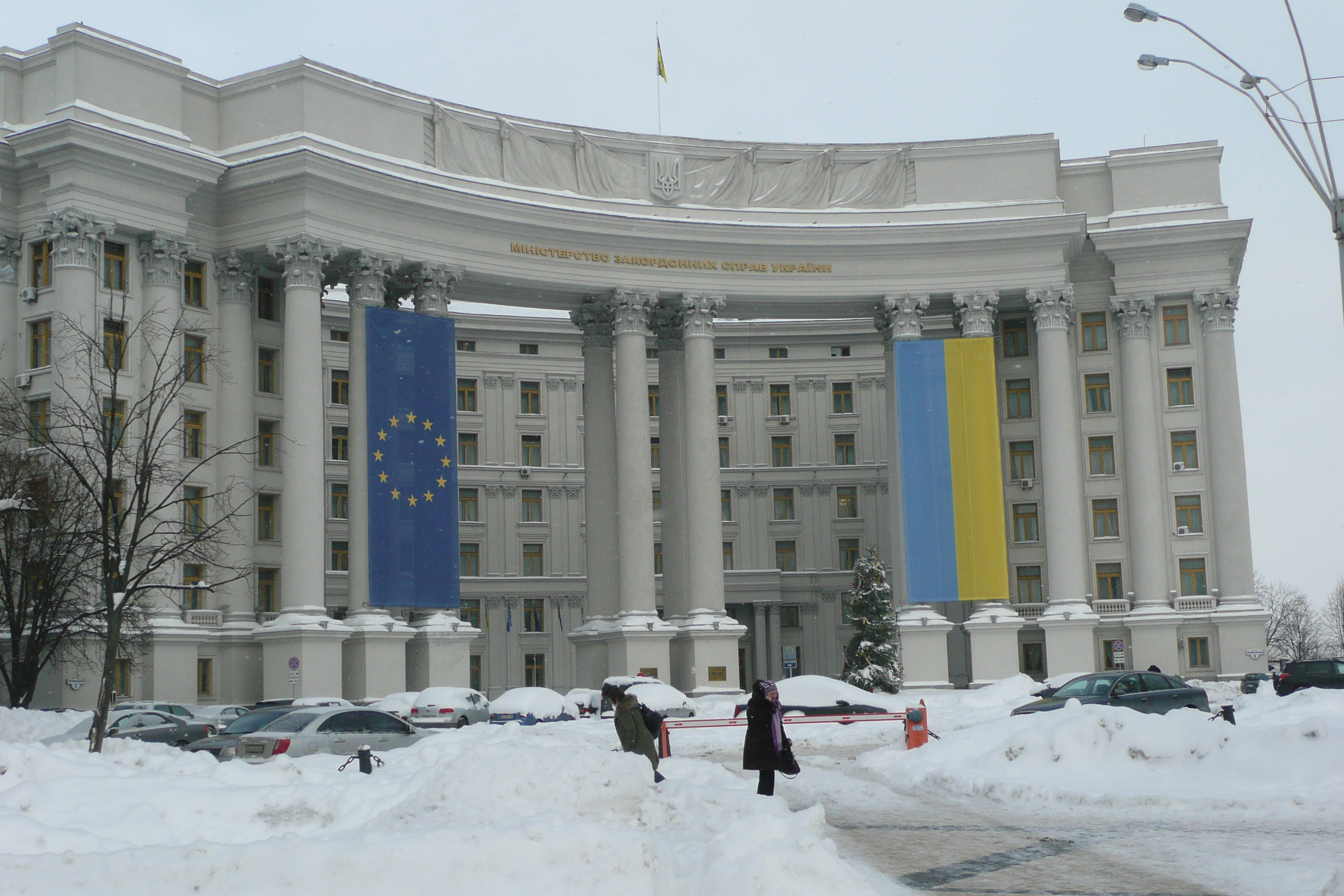 Kiev